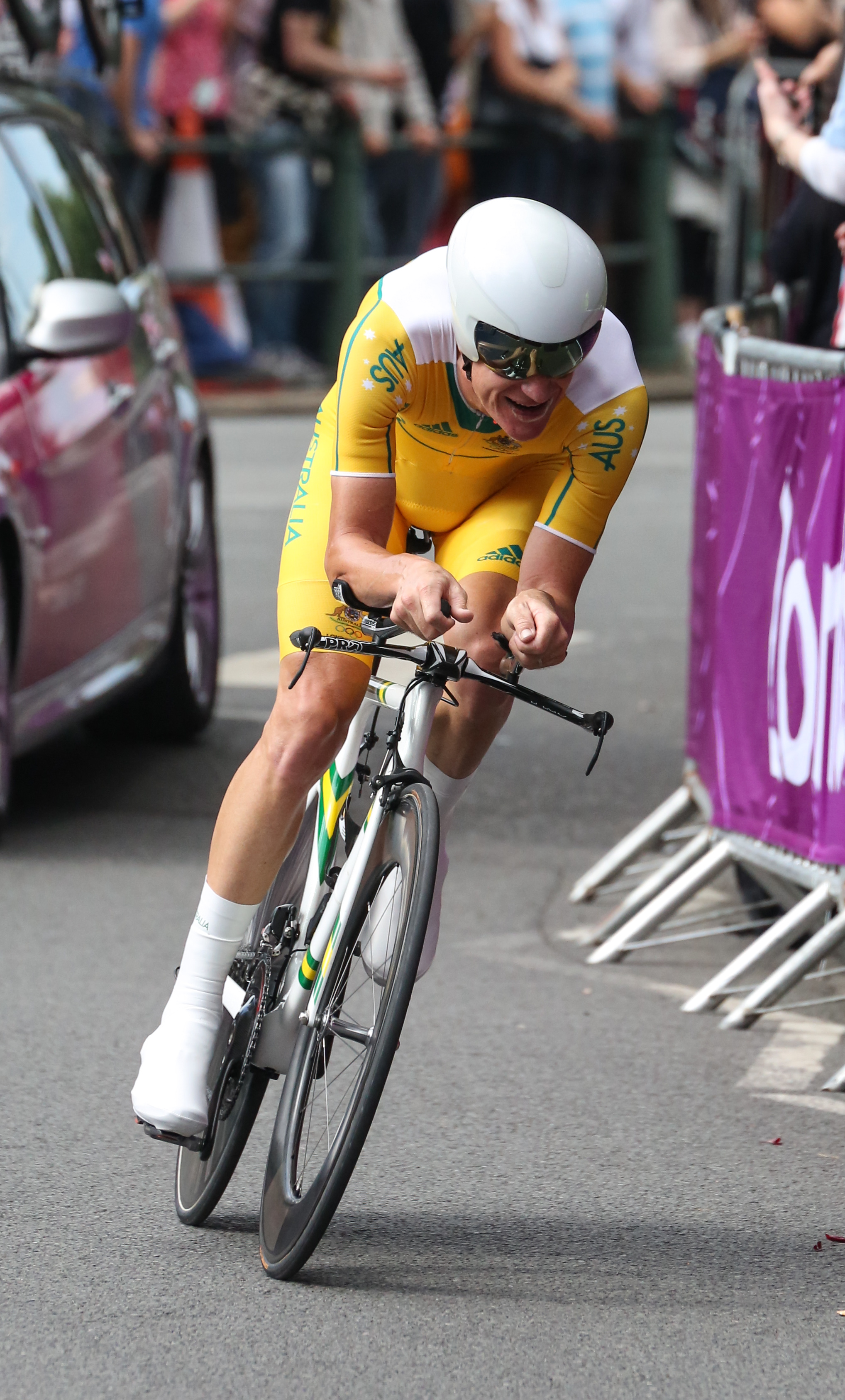 Michael Rogers competing in the London 2012 Men's Olympic Time Trial.